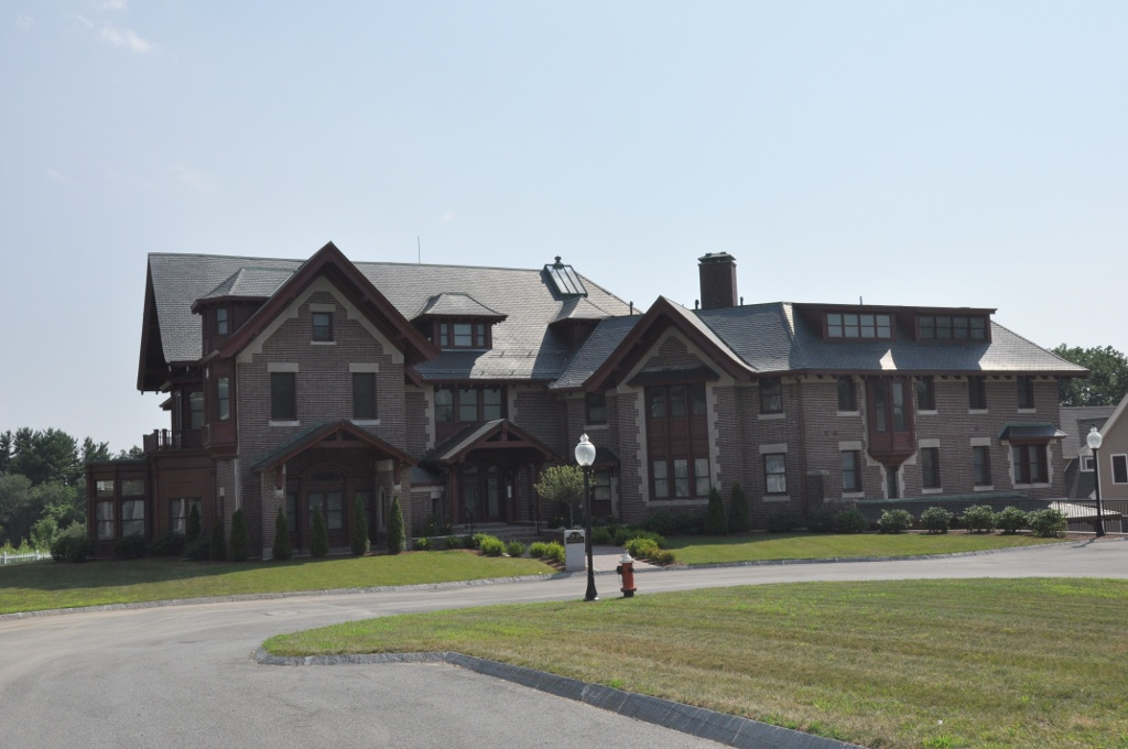 The main house of the former George Kunhardt Estate in North Andover, Massachusetts. The building has been converted into condominiums.